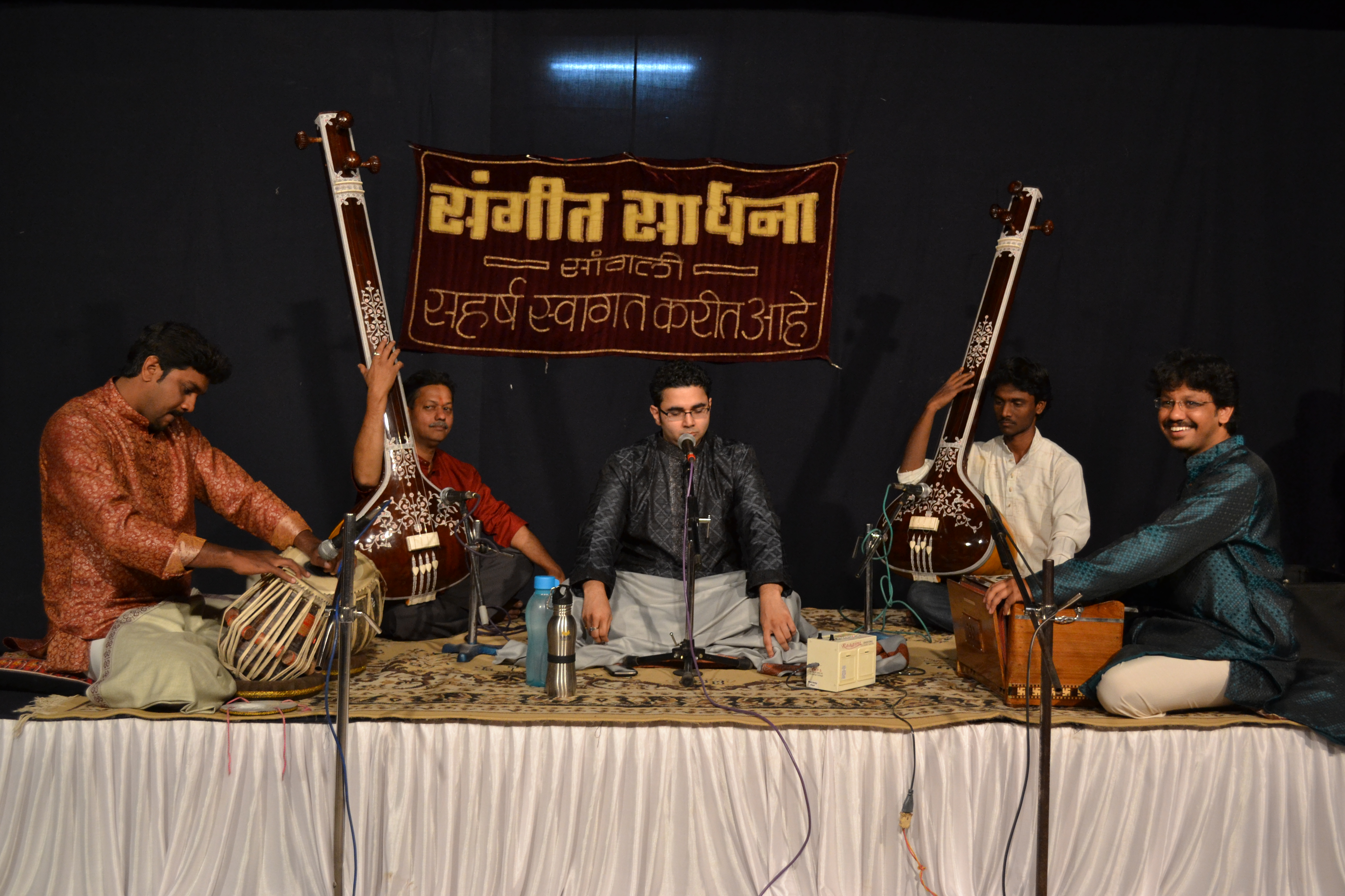 Vocalist Sandeep Ranade performs Hindustani Classical music accompanied by Milind Kulkarni on harmonium and Nilesh Randive on tabla at Bhave Natya Mandir, Sangli in December 2012.